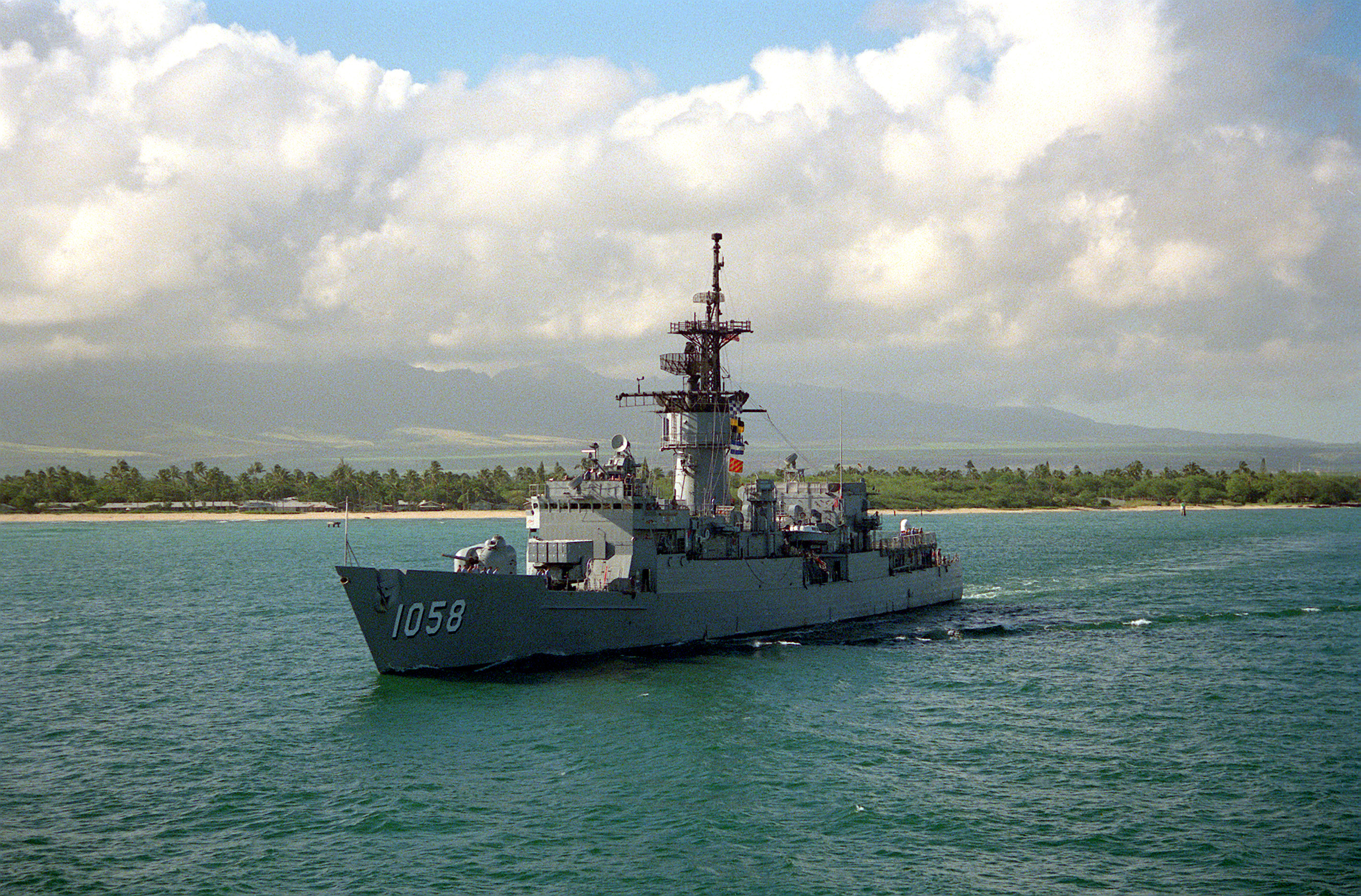 The U.S. Navy frigate USS Meyerkord (FF-1058) departing Pearl Harbor, Hawaii (USA), on 1 February 1991.